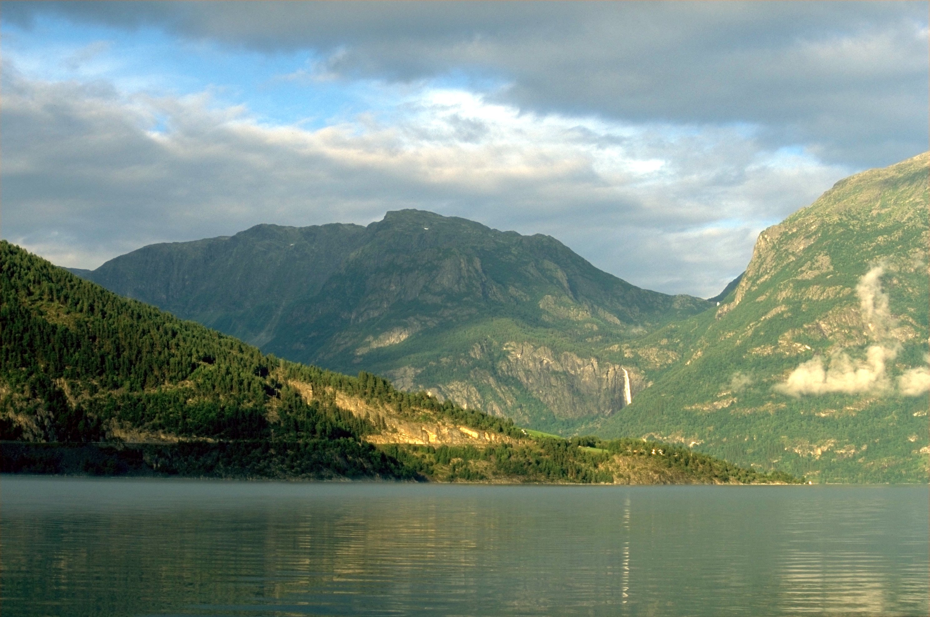 View over Sognefjord Photo was taken using the following technique: Film: Fuji Velvia Lens: 2.4/100 Macro Filter: Body: Minolta Dynax 7 Support: Manfrotto 190B Image with Information in English Bild mit Informationen auf Deutsch